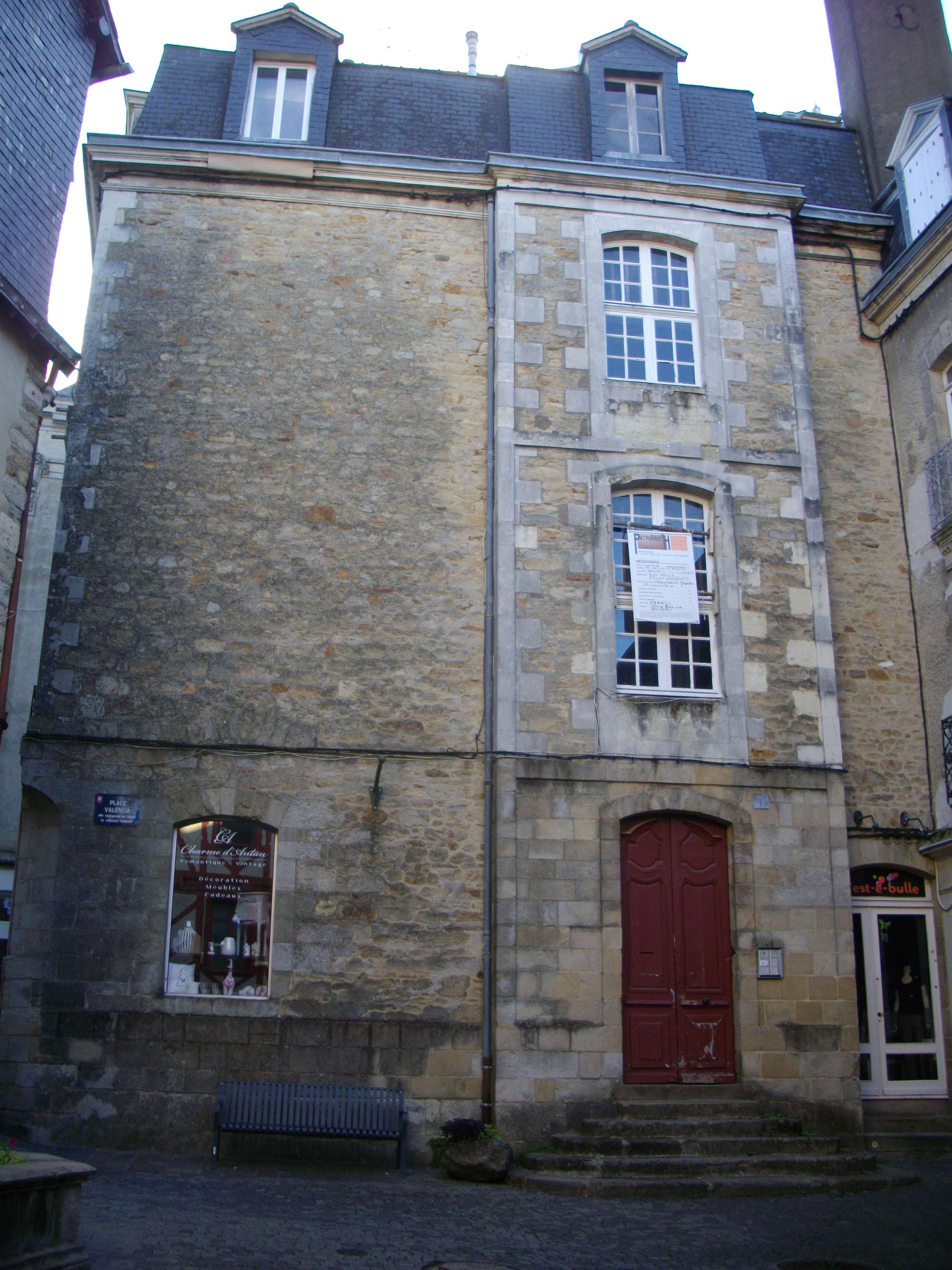 Saint George hotel in Vannes (Morbihan, France), facade on Valencia square .